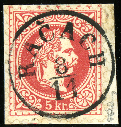 Austrian KK 5 kreuzer issue 1867, cancelled RAČACH, Carniola province (now in Slovenia).